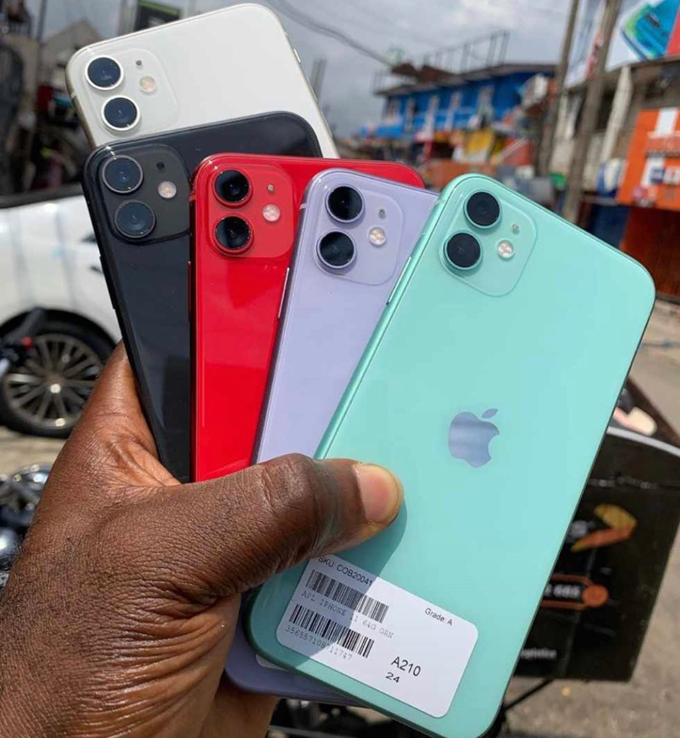 he iPhone 11 is a smartphone designed, developed, and marketed by Apple Inc. It is the thirteenth generation lower-priced iPhone, succeeding the iPhone XR. It was unveiled on September 10, 2019